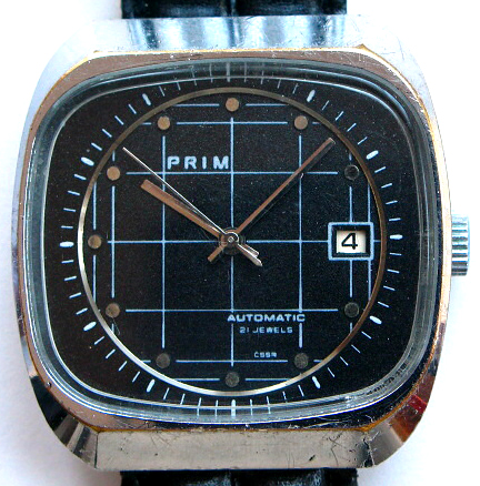 Prim caliber 96